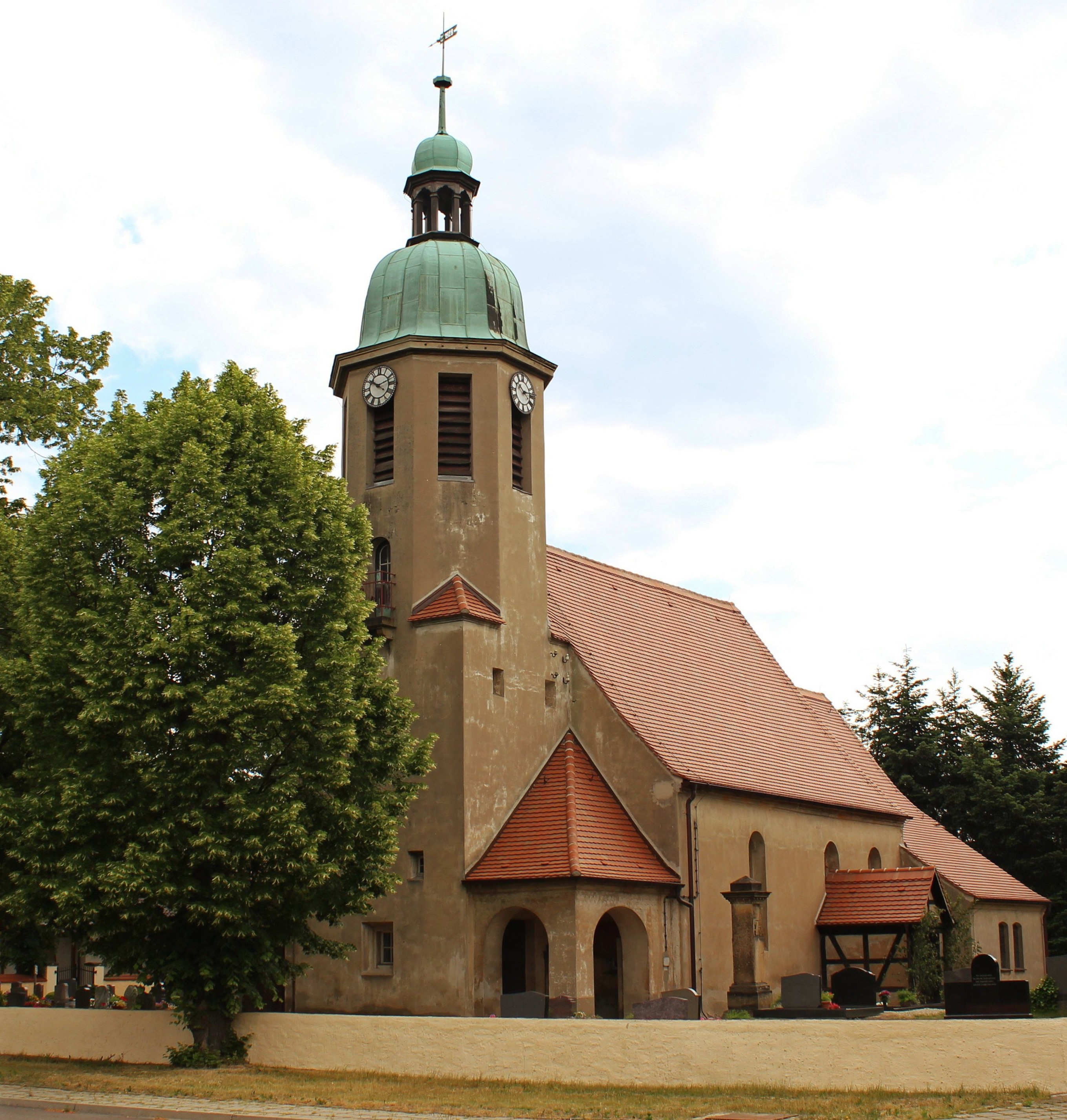 The village church of Stolzenhain. It was built 1592nd.